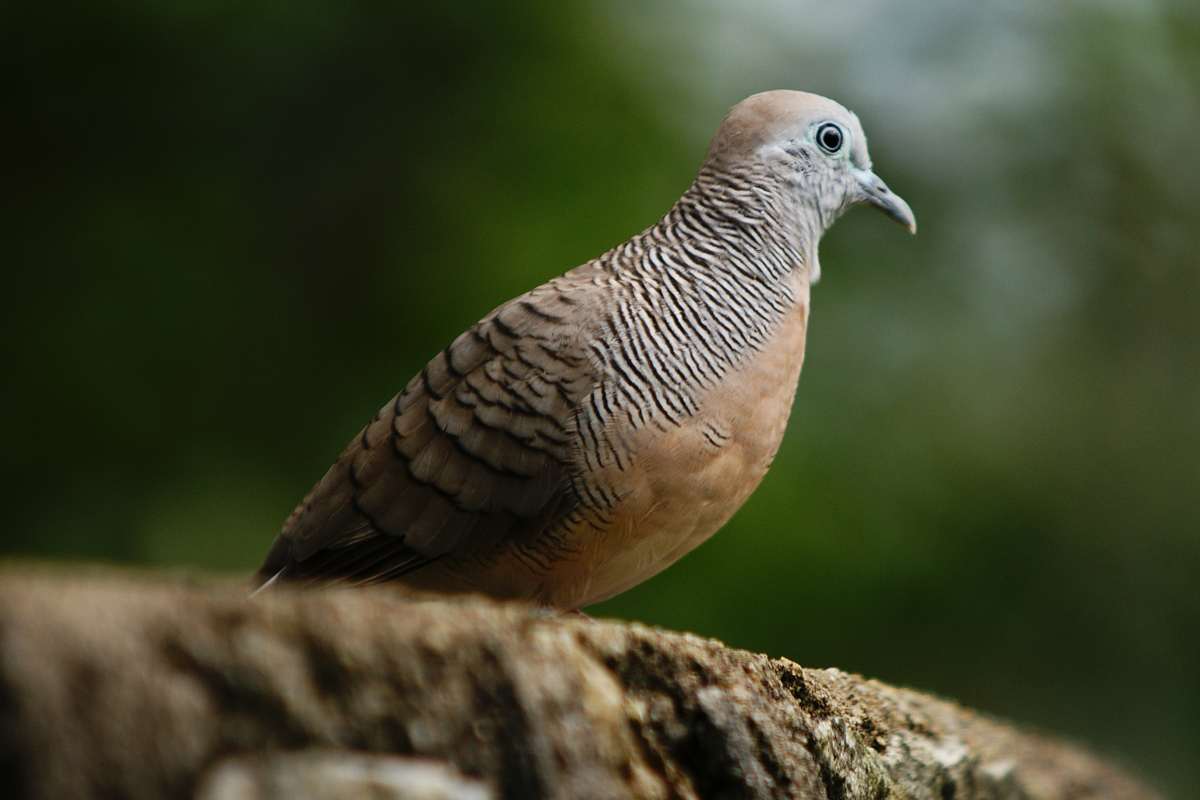 Zebra Dove at Kuala Lumpur Bird Park, Malaysia.